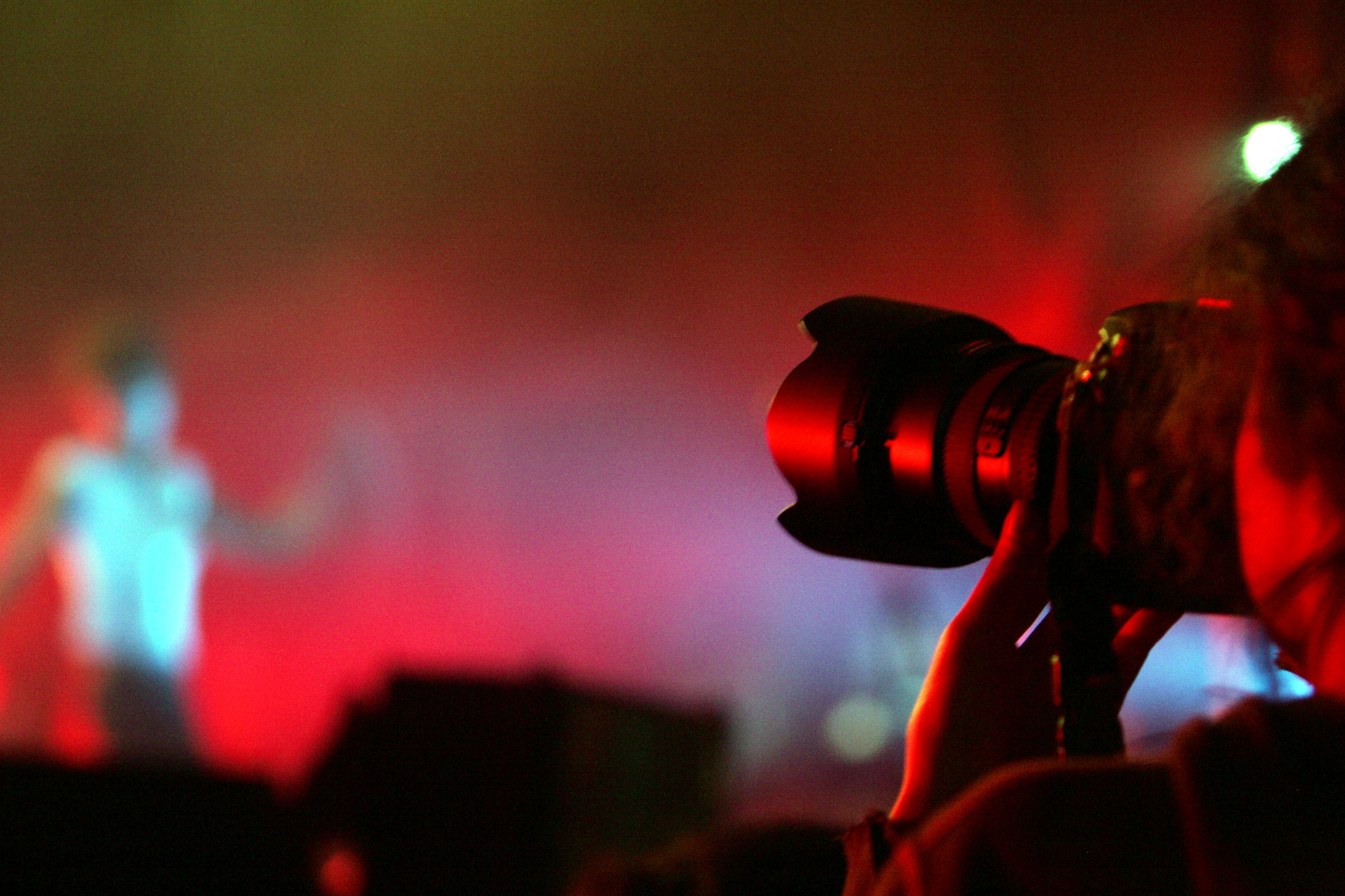 Press photographers at Pully For Noise festival 2008